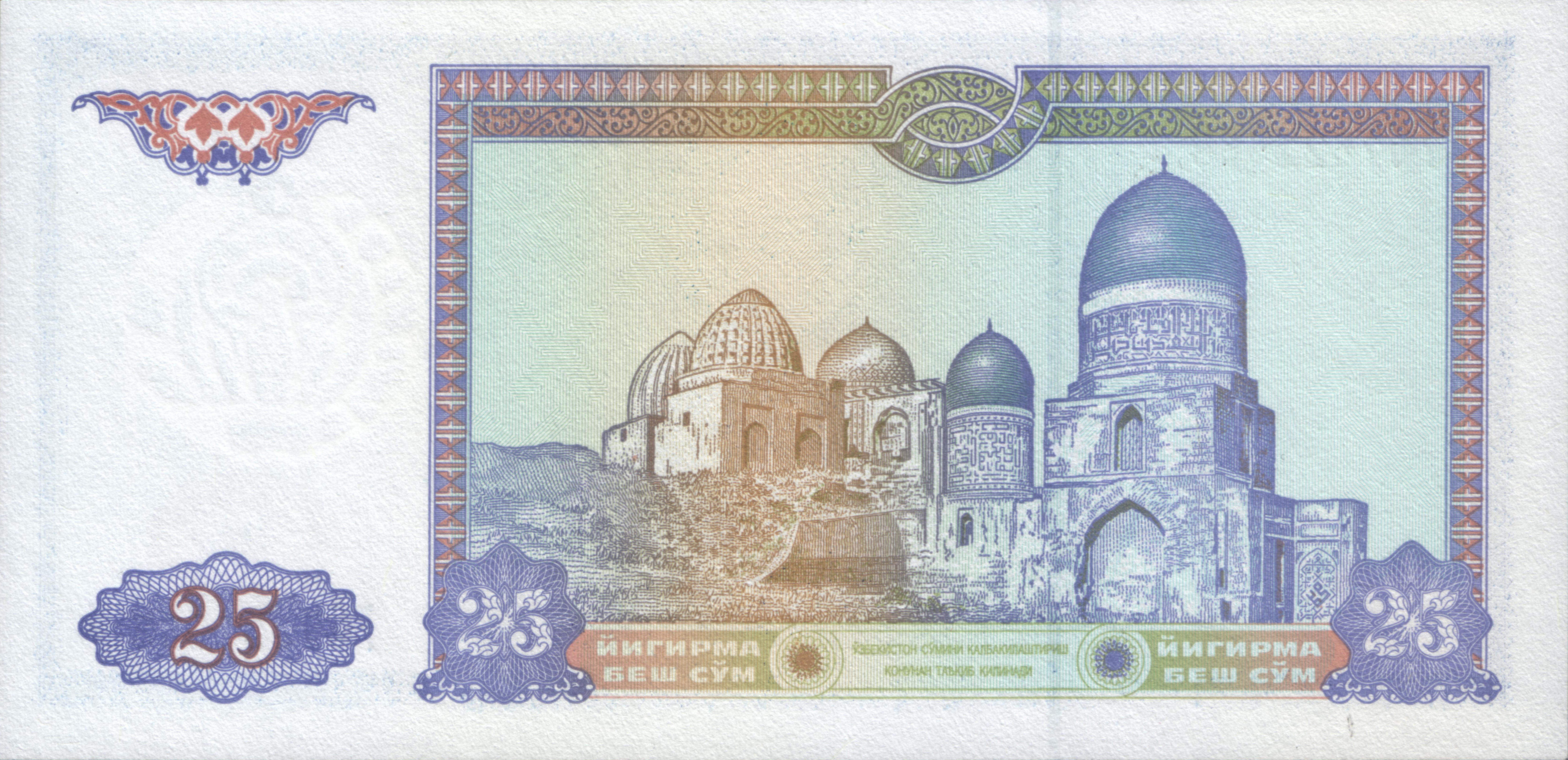 25 soms of Uzbekistan (1994)